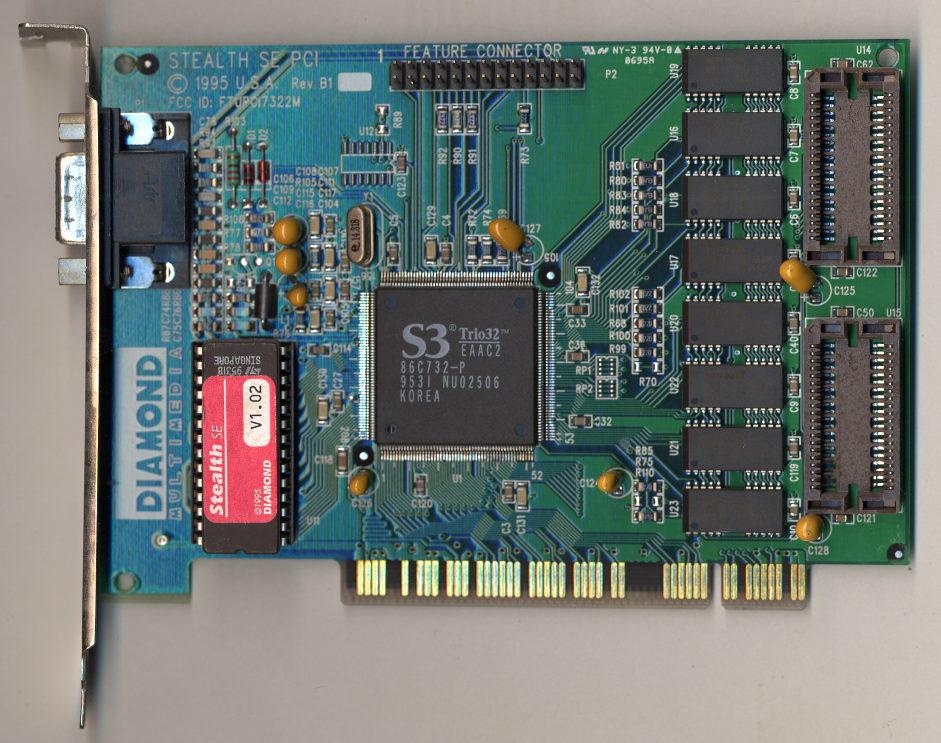 Diamond Stealth SE, scanned by me